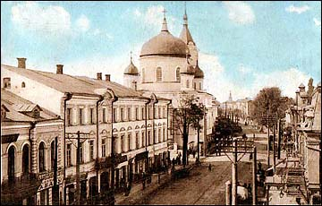 Kiev street looking West toward St. Michael church. Photo early 1900's.